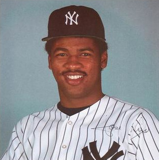 Professional baseball player Jose Rijo